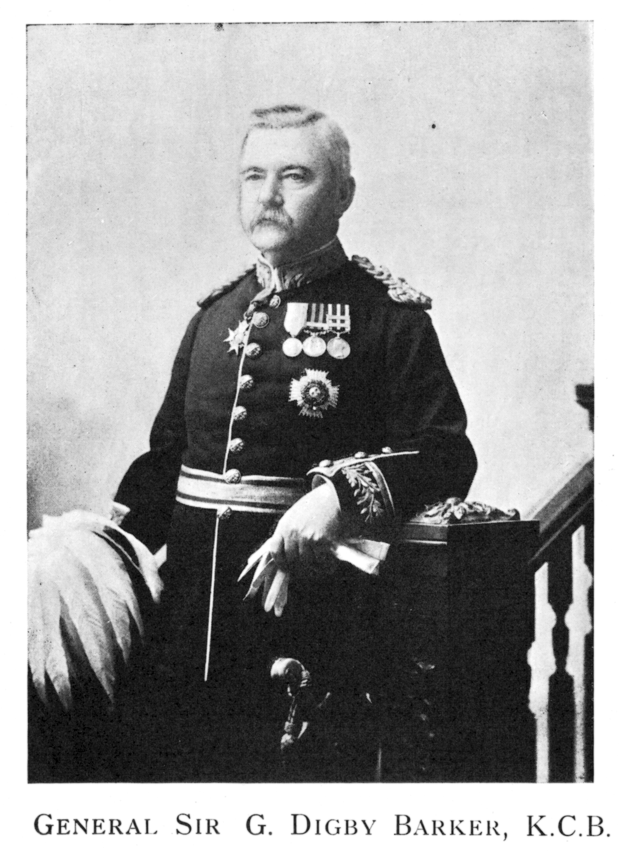 Photographic portrait of uniformed General Sir George Digby BARKER (1833-1914) captioned GENERAL SIR G. DIGBY BARKER, K.C.B. from the book entitled Suffolk Leaders: Social and Political, by Charles Albert Manning PRESS (1869-1943) published (for subscribers only) in May 1906 by the Hornsey & Tottenham Press Ltd.